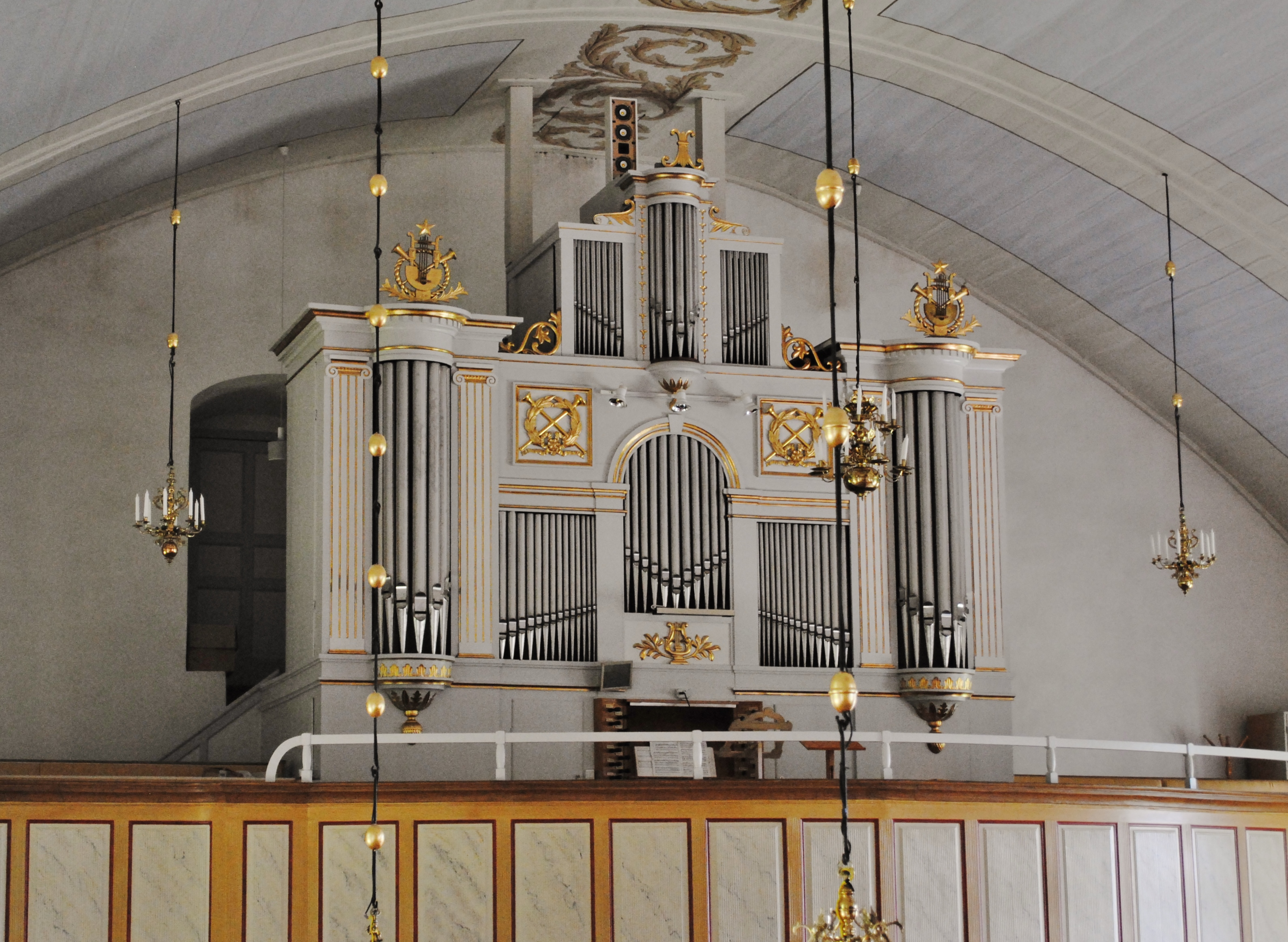 Väckelsångs Church.Organ.